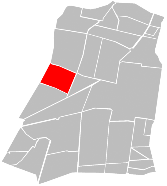 Map of Delegación Cuauhtémoc in Mexico City, with Colonia San Rafael highlighted in red